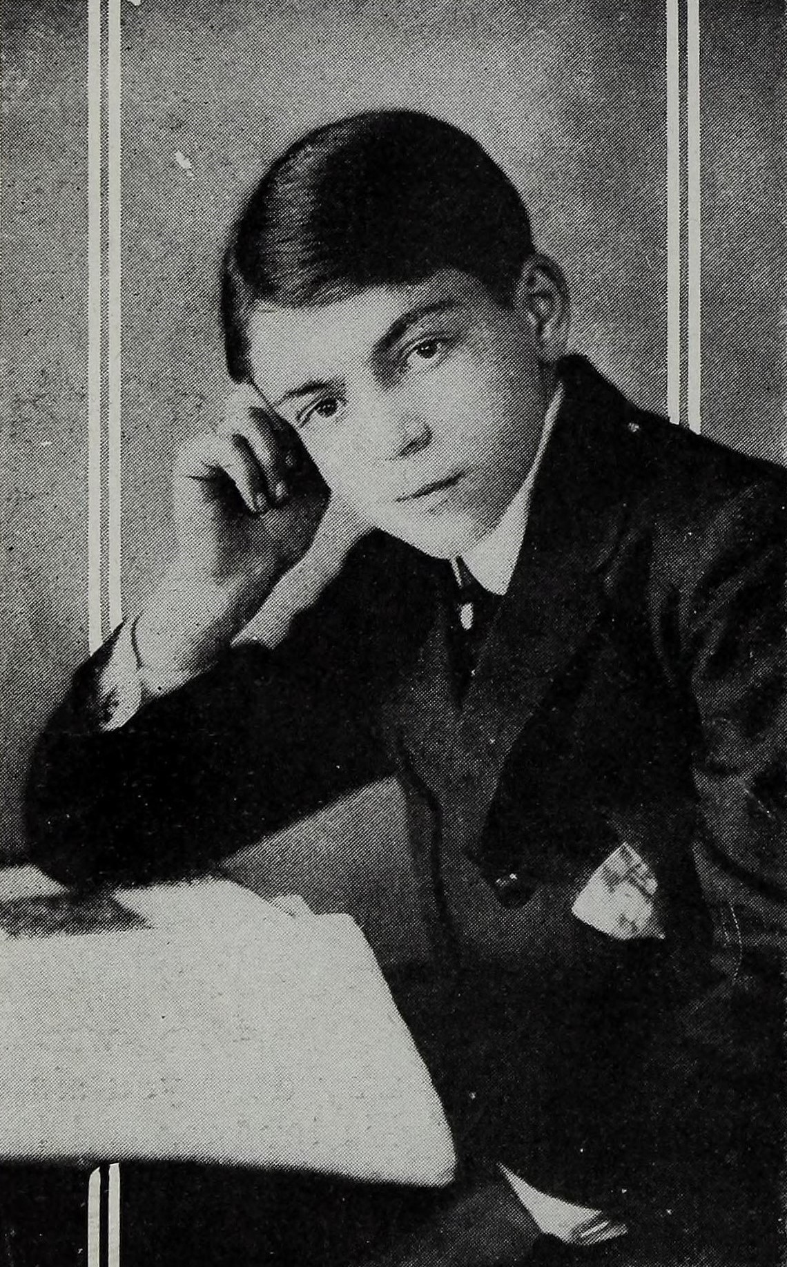 Motion Picture, Feb. 1915